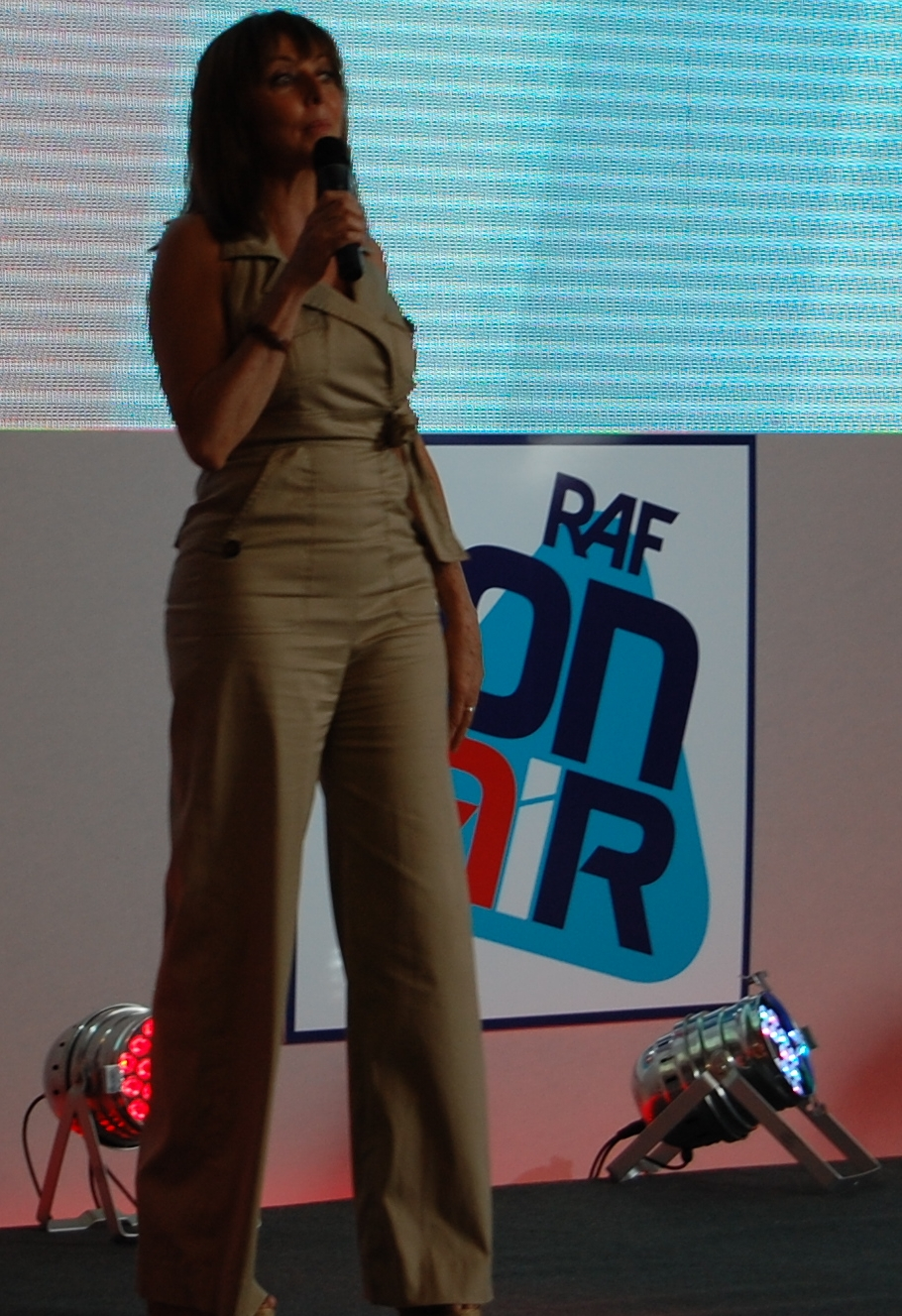 Carol Vorderman presenting an RAF Wings Appeal charity show at RAF Waddington Airshow 3 July 2011